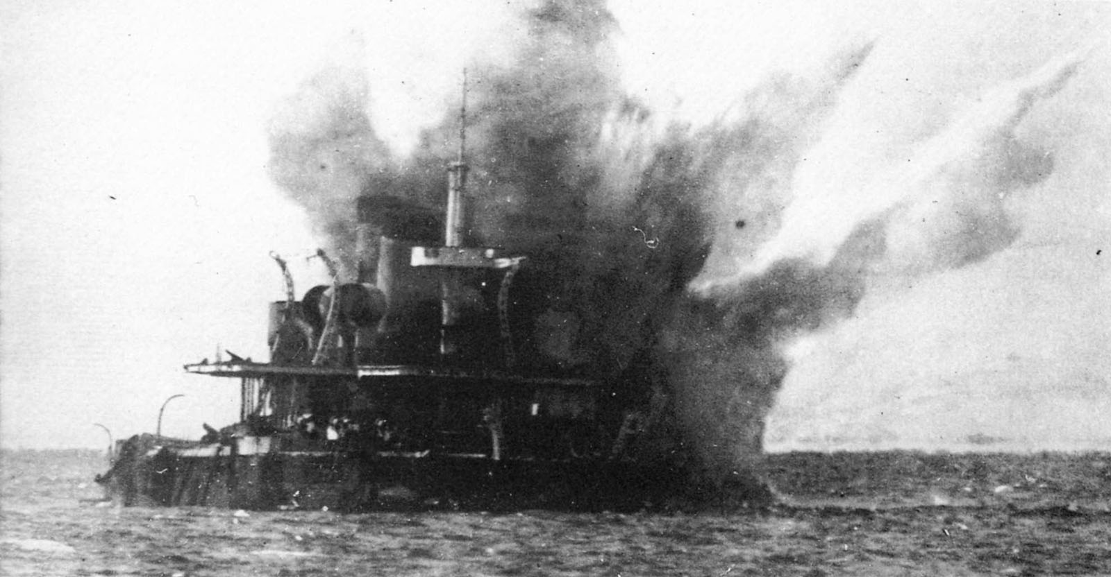 Drop-out ship №4 (former Chesma) under firing of battleship Ioann Zlatoust.